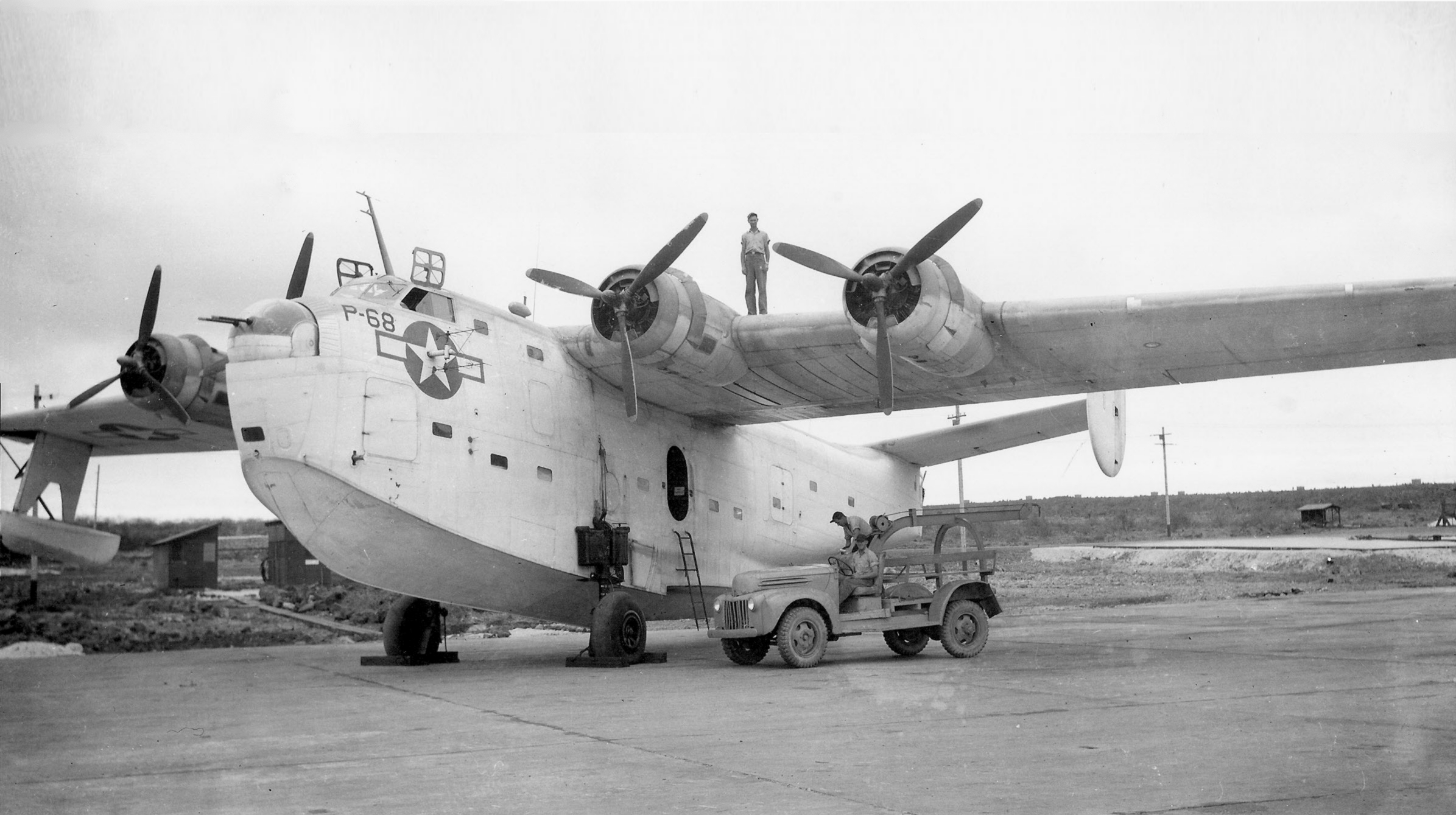 A U.S. Navy Consolidated PB2Y-3 Coronado assigned to Patrol Bombing Squadron VPB-1 at Naval Auxiliary Air Facility Galapagos on Seymour Island, from which the squadron flew missions patroling the Pacific approaches to the Panama Canal.